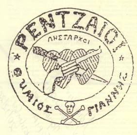 The Rentzaioi Brothers Gang seal (stamp), Greece